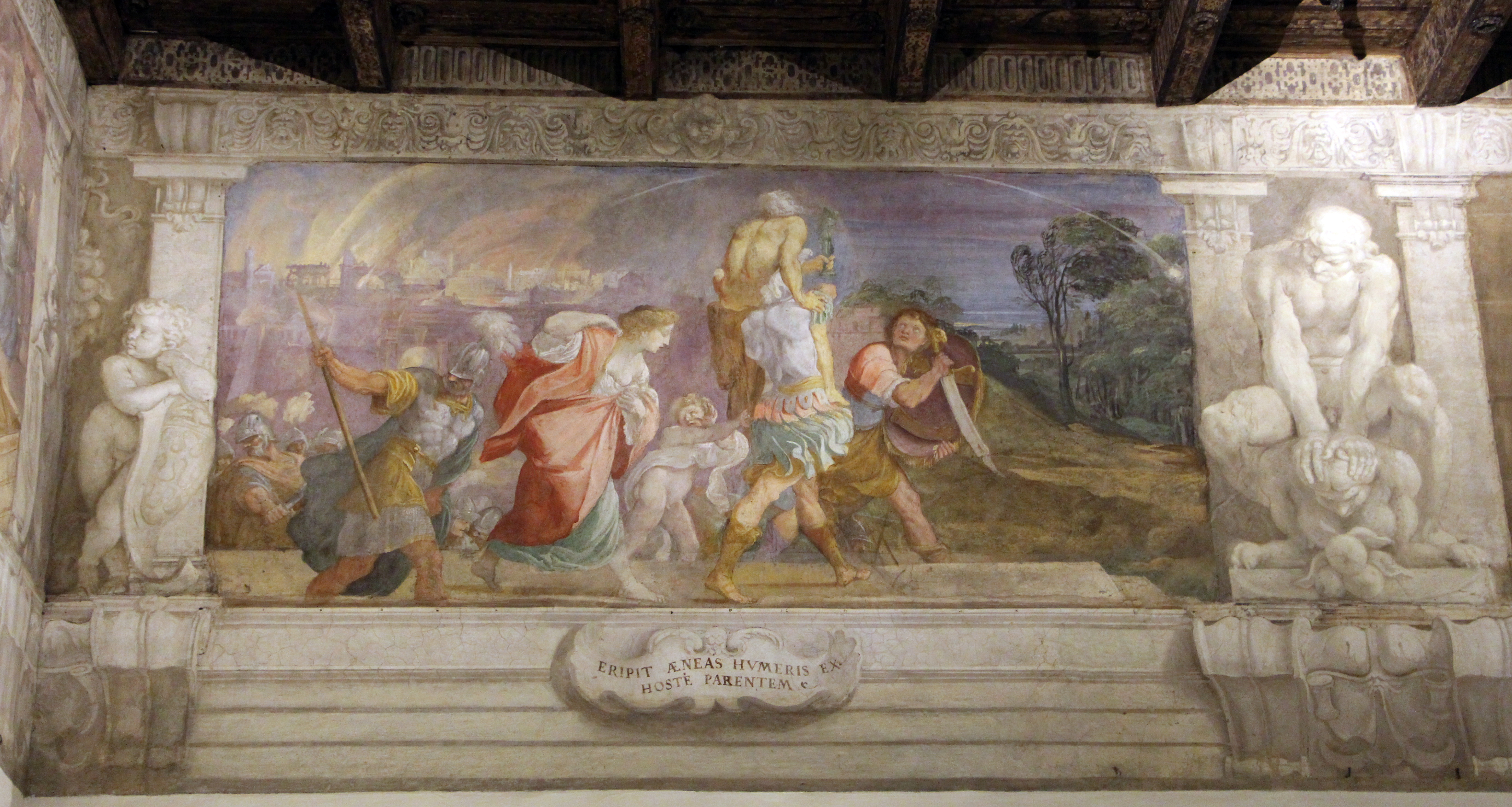 Frieze of Aeneas by the Carracci family